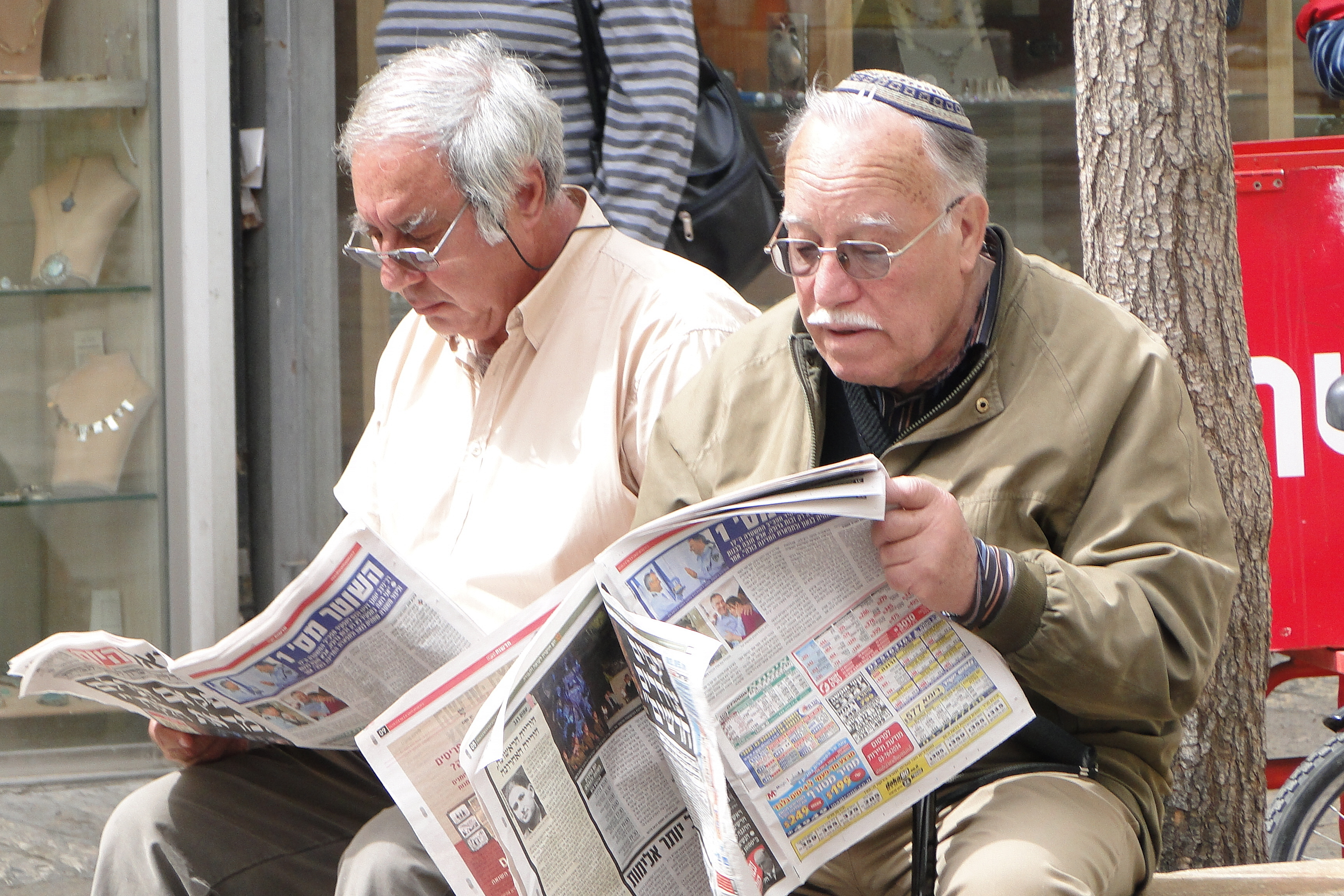 Reading the Morning Paper on Ben Yehuda Street - Jerusalem - Israel.